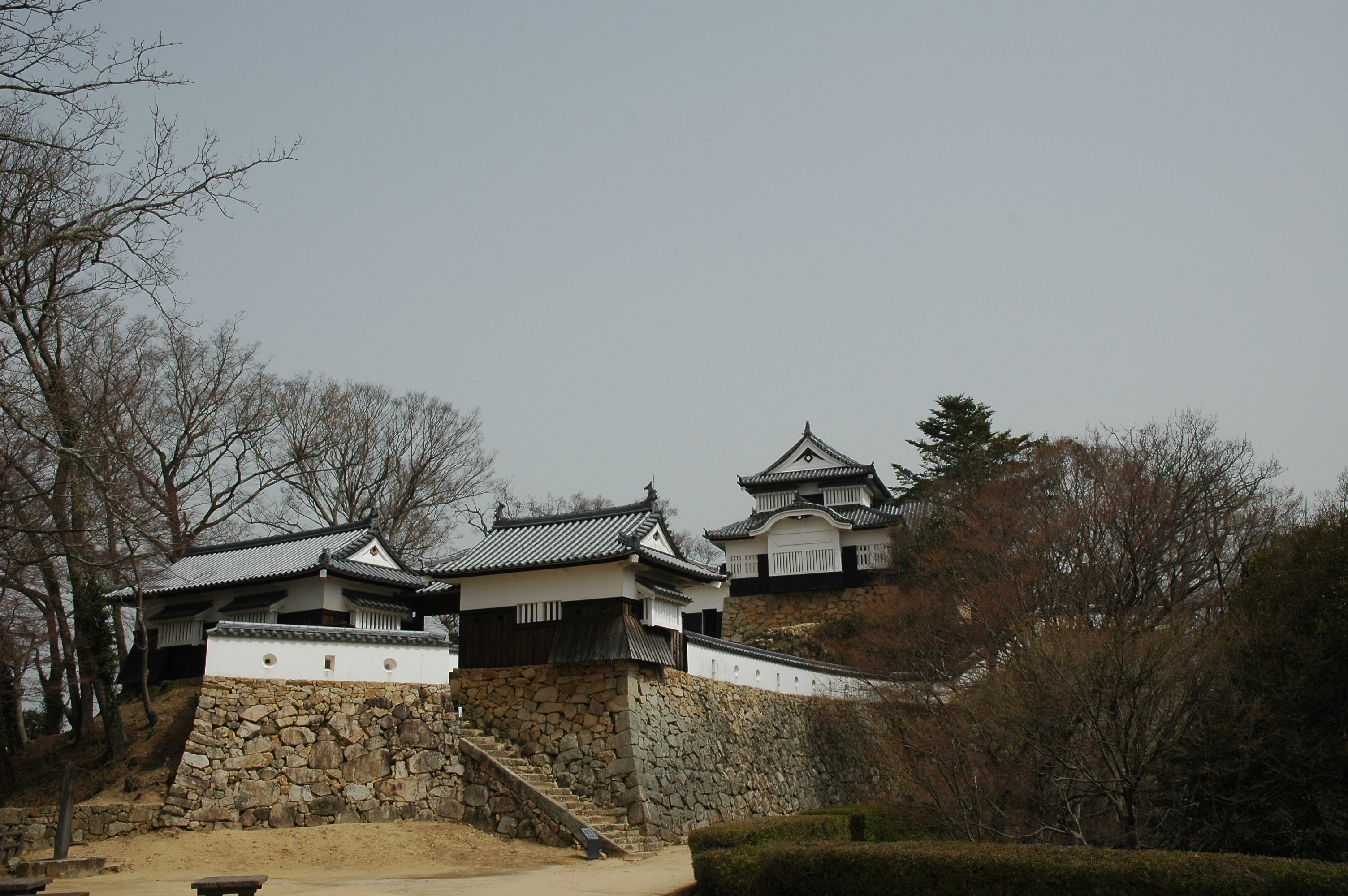 photo of Bitchū Matsuyama castle Hon-maru